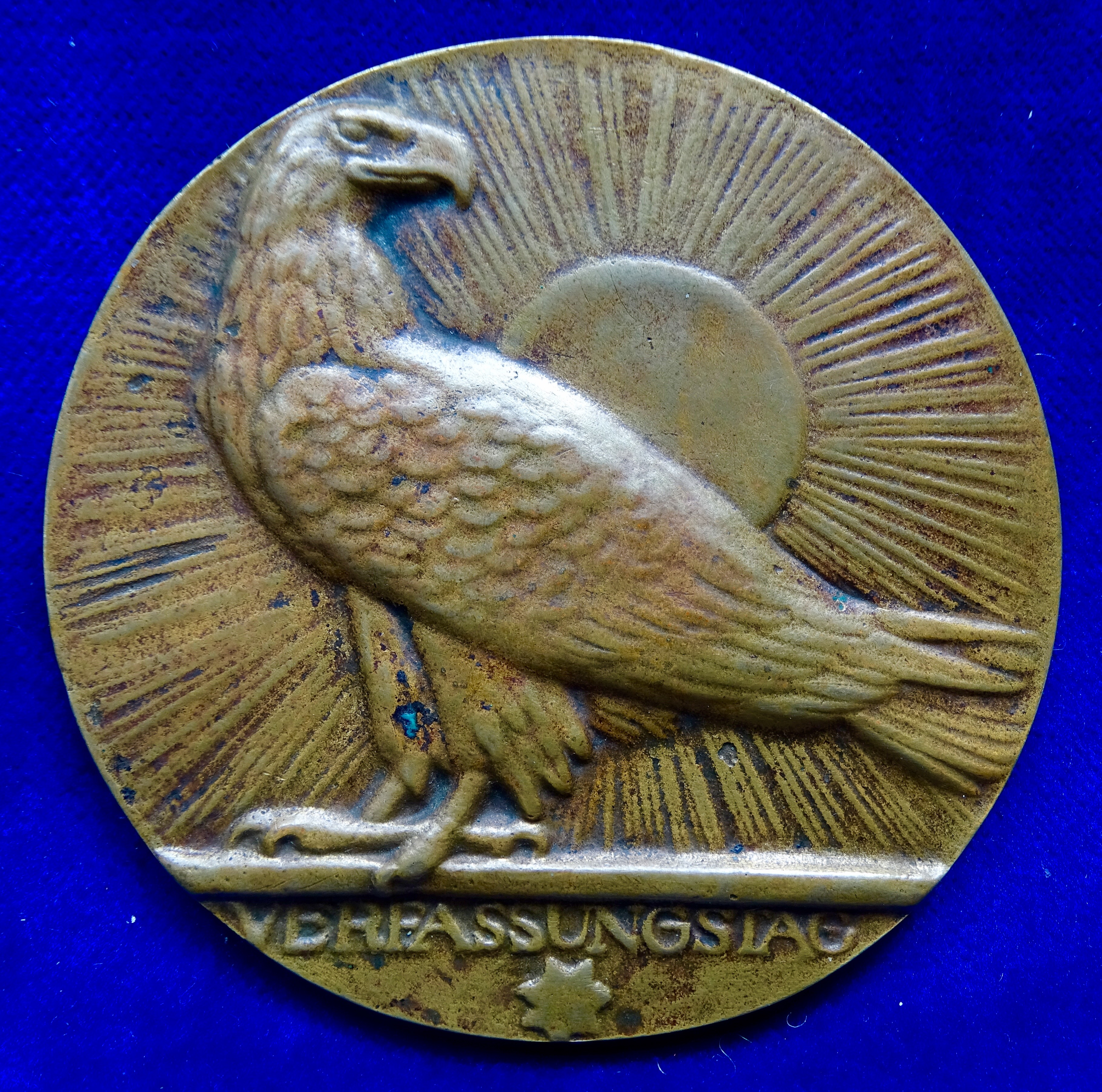 Germany Award Medal 1929 (ND) Verfassungstag. Commemorating the 10th Anniversary of the Weimar Constitution. Bronze medallion, d. = 69 mm The German Eagle l. looking back, the radiating sun in the background. 1 line in exergue: "VERFASSUNGSTAG" / Surrounding an oak branch: "* EHRENPREIS / DES * REICHSPRÄSIDENTEN *". Medallist: (Alfred) Vocke Berlin, 1886 Breslau - 1944 Breslau. Condition: EXTREMELY FINE.